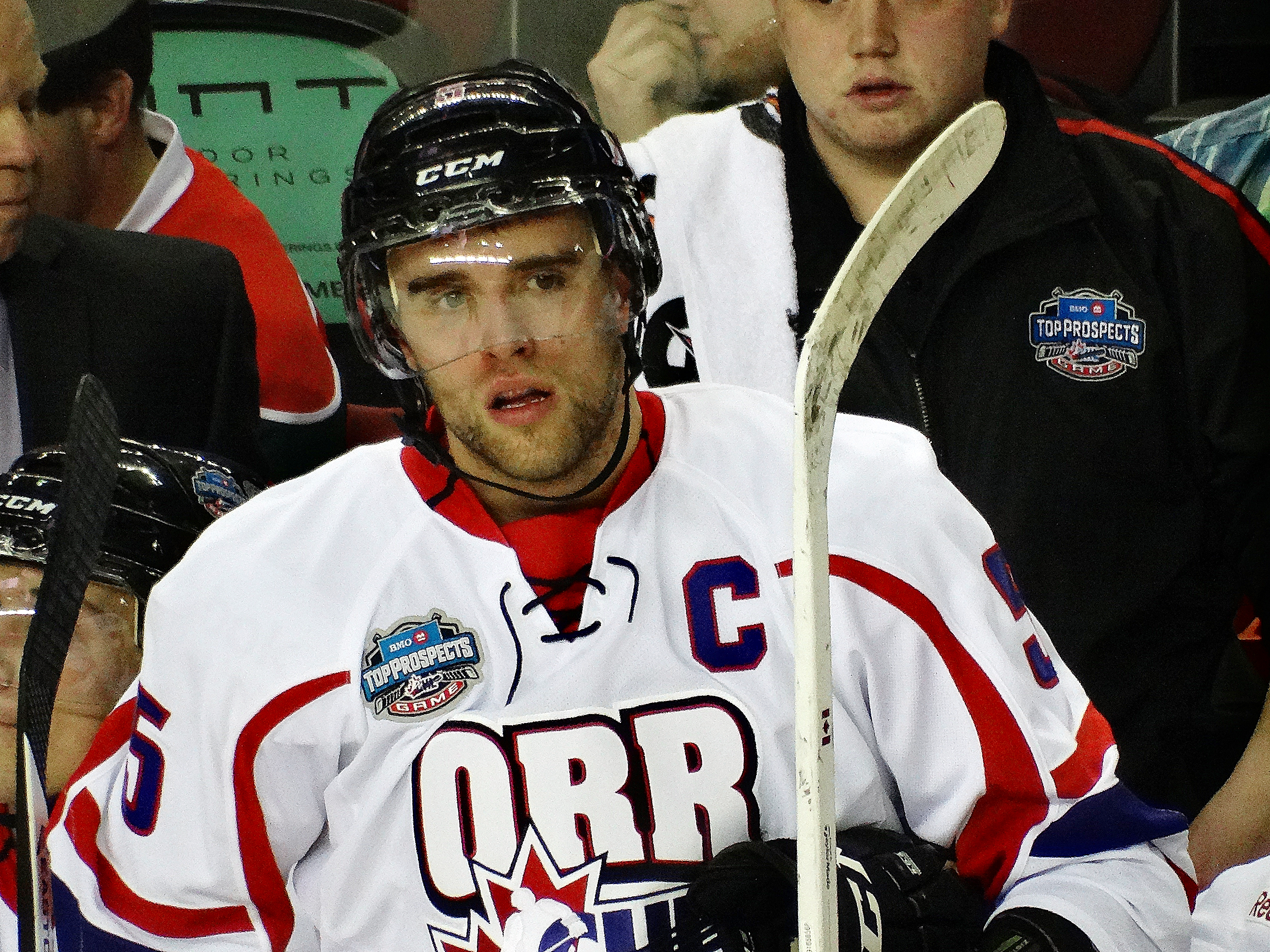 Aaron Ekblad was captain for Team Orr. He was a key set-up man from the blueline with two assists and demonstrated why he is the top defenceman available for the 2014 NHL Entry Draft. The CHL / NHL Top Prospects game at Scotiabank Saddledome on January 15, 2014 in Calgary, Alberta, Canada. Team Orr defeated Team Cherry 4-3.